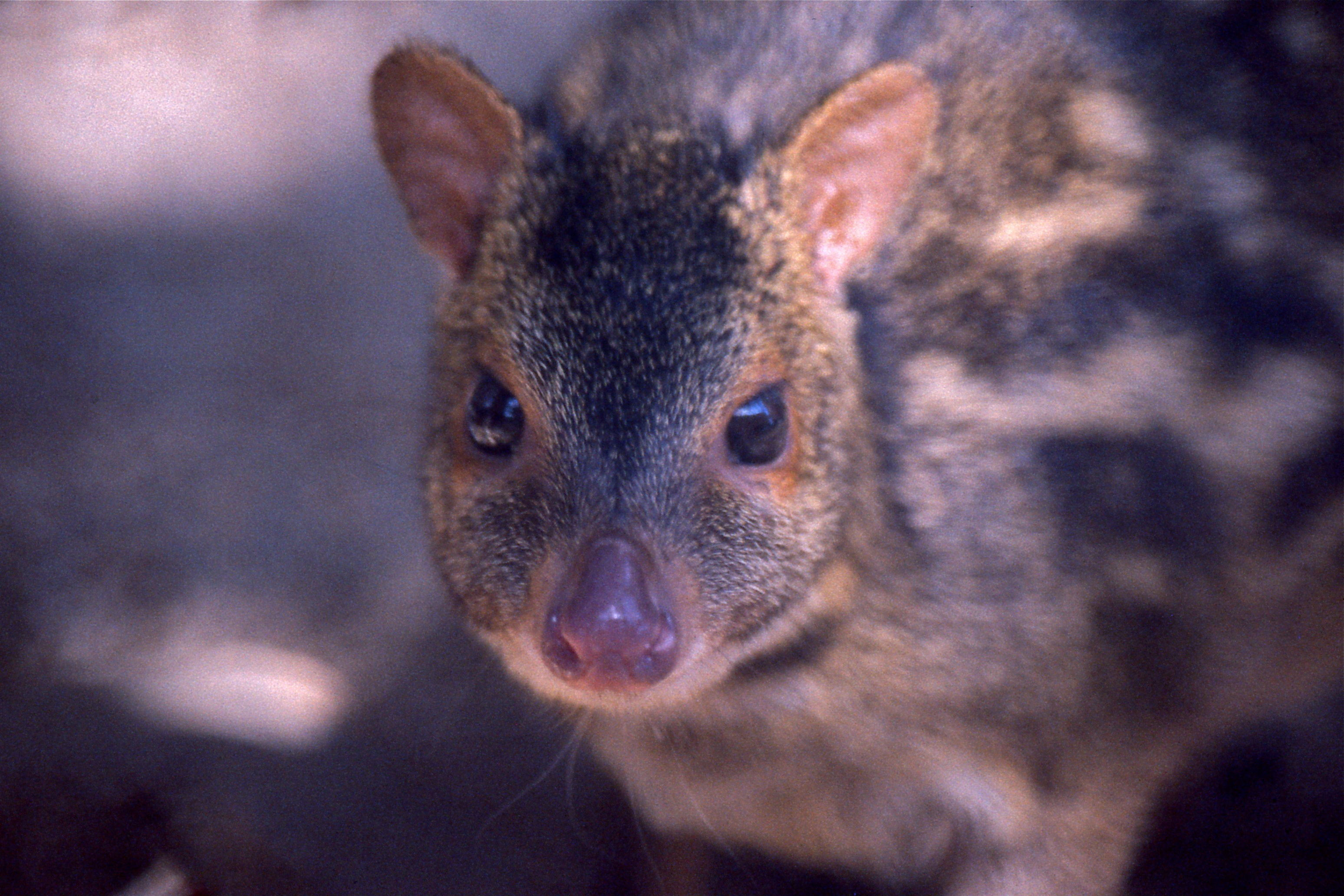 Alipore Zoo, Kolkata, West Bengal, INDIA Scanned Slide from February 1994